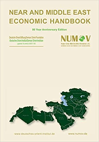 Near and Middle East Economic Handbook: 80 Years Anniversary Edition